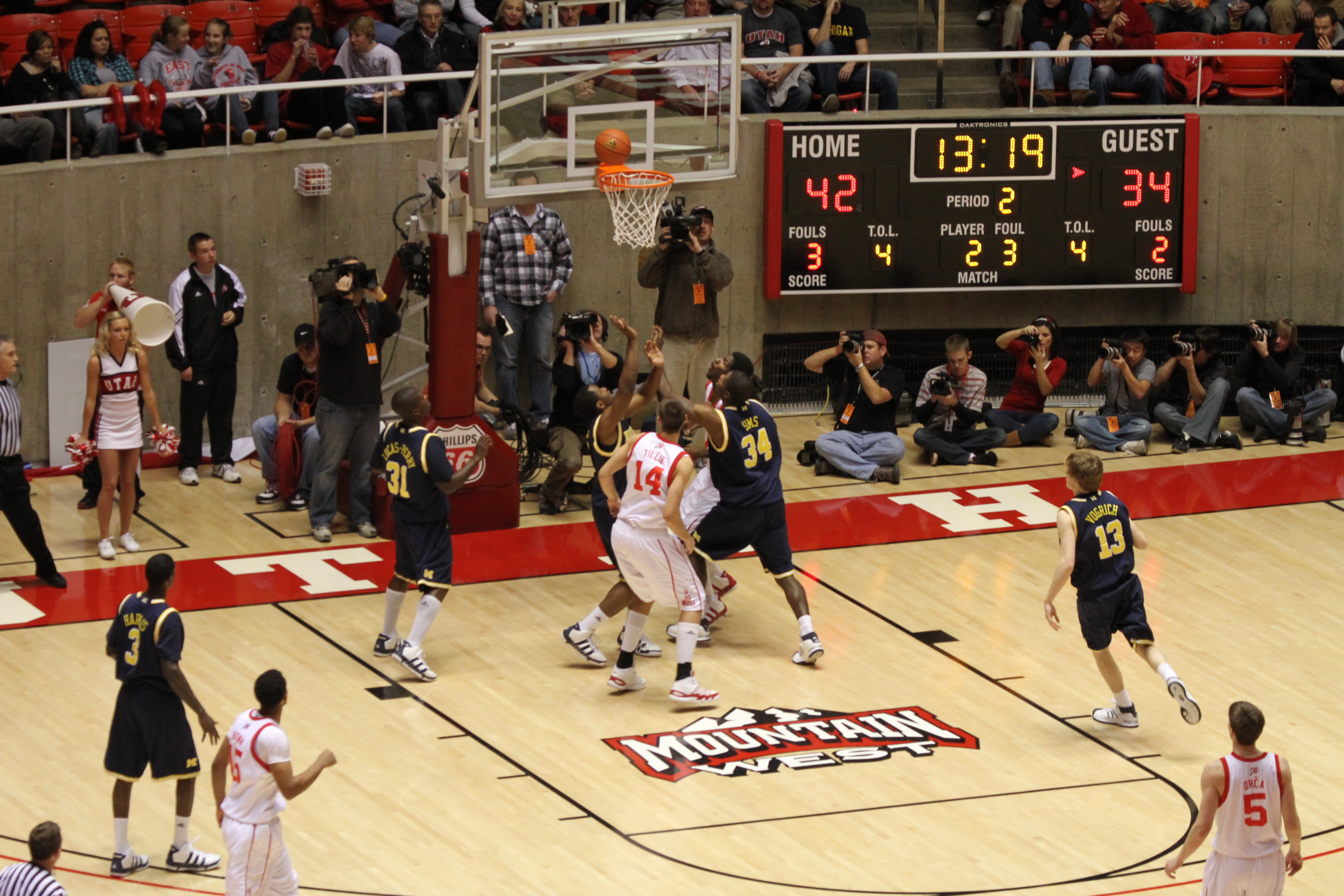 w:2009–10 Michigan Wolverines men's basketball team vs. w:2009–10 Utah Utes men's basketball team